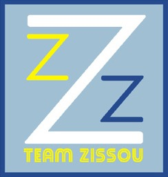 Logo of Team Zissou.